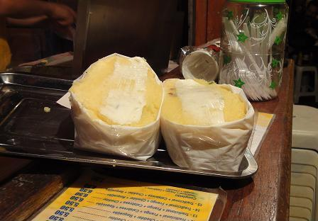 Classic hot dog, photographed at Hot Dog Central ( in Campinas (SP), Brazil.